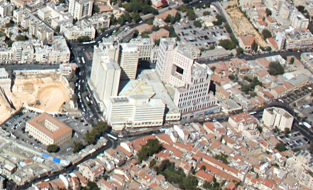 Clal Center and surroundings